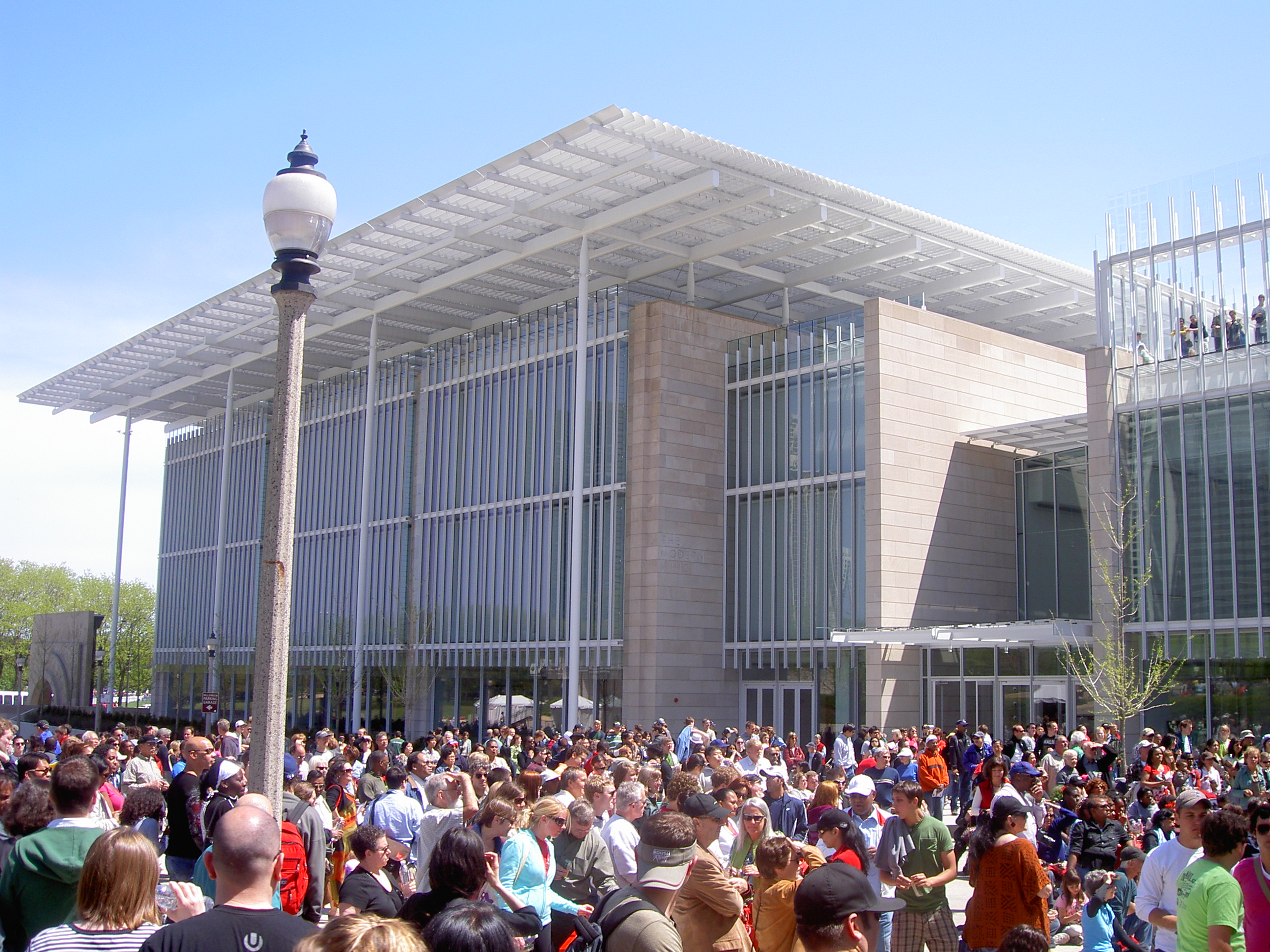 Chicago Art Institute Modern Wing — opening weekend, Saturday, May 16 2009.